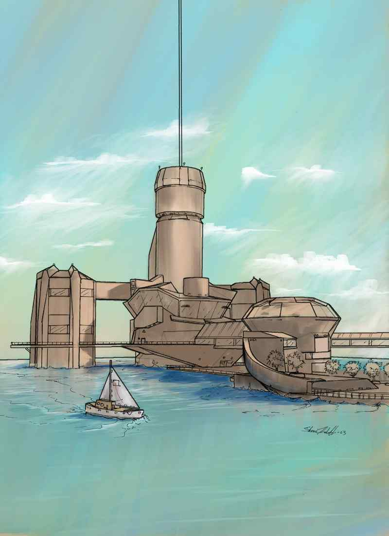 A conceptual drawing of a space elevator's anchor platform.